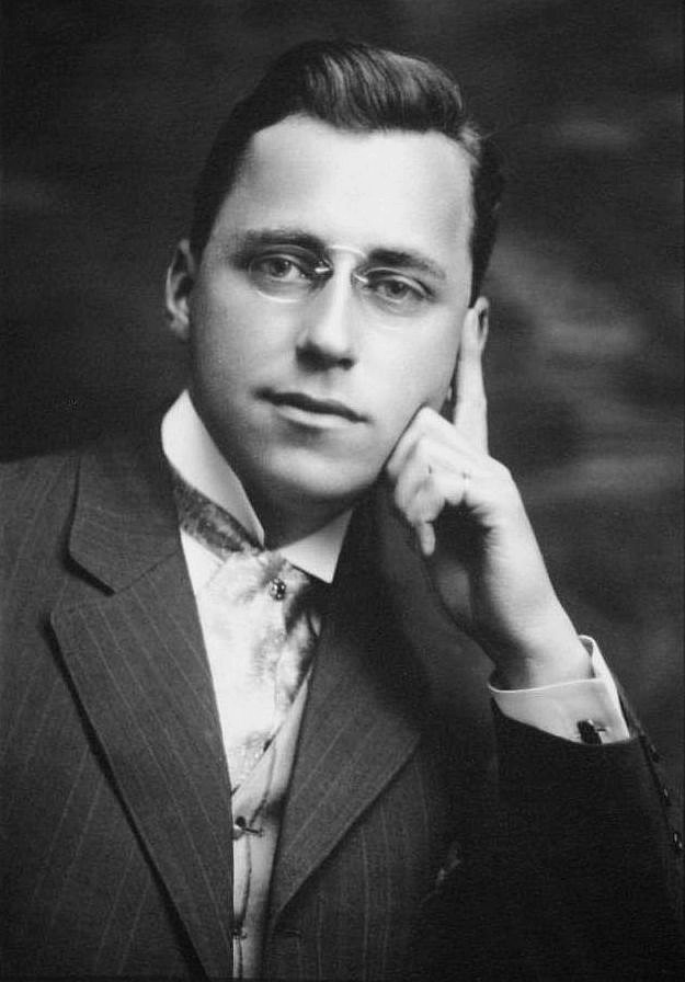 Half-length portrait of a young Paul Martin in formal attire. The photo was taken by Rudolf Eickemeyer Jr. (see "other info") at Campbell Studio. It was then located inside a grand hotel, at 5th Ave. & 33rd St. in Manhattan.